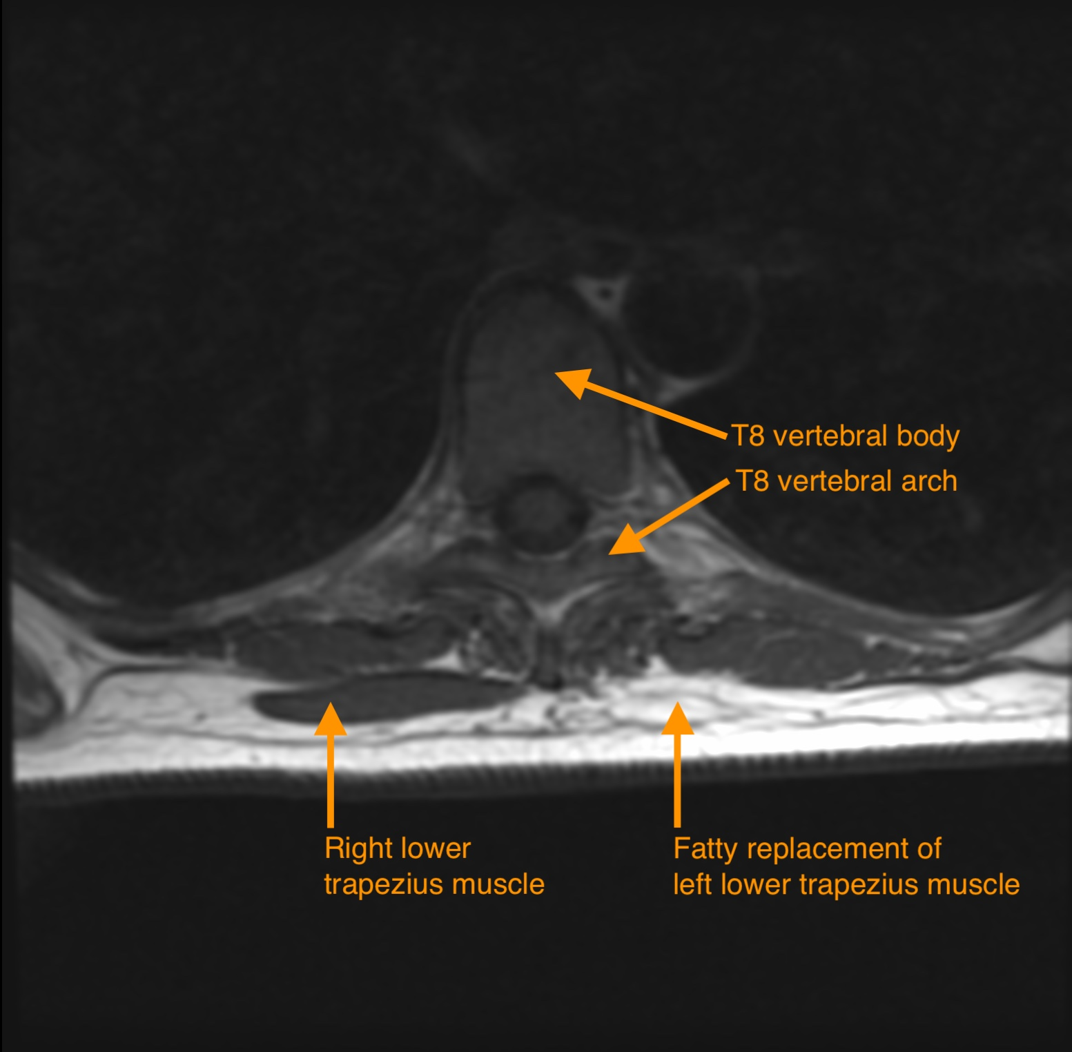 T1-weighted MRI of 40 year/old woman with genetically confirmed facioscapulohumeral muscular dystrophy. Her chief complaint was left periscapular pain since adolescence, especially when sitting on seats without backs. In this view, the right lower trapezius is visible, but the left lower trapezius is not, and in its place is fat. The paraspinal and latissimus dorsi muscles are visible bilaterally.